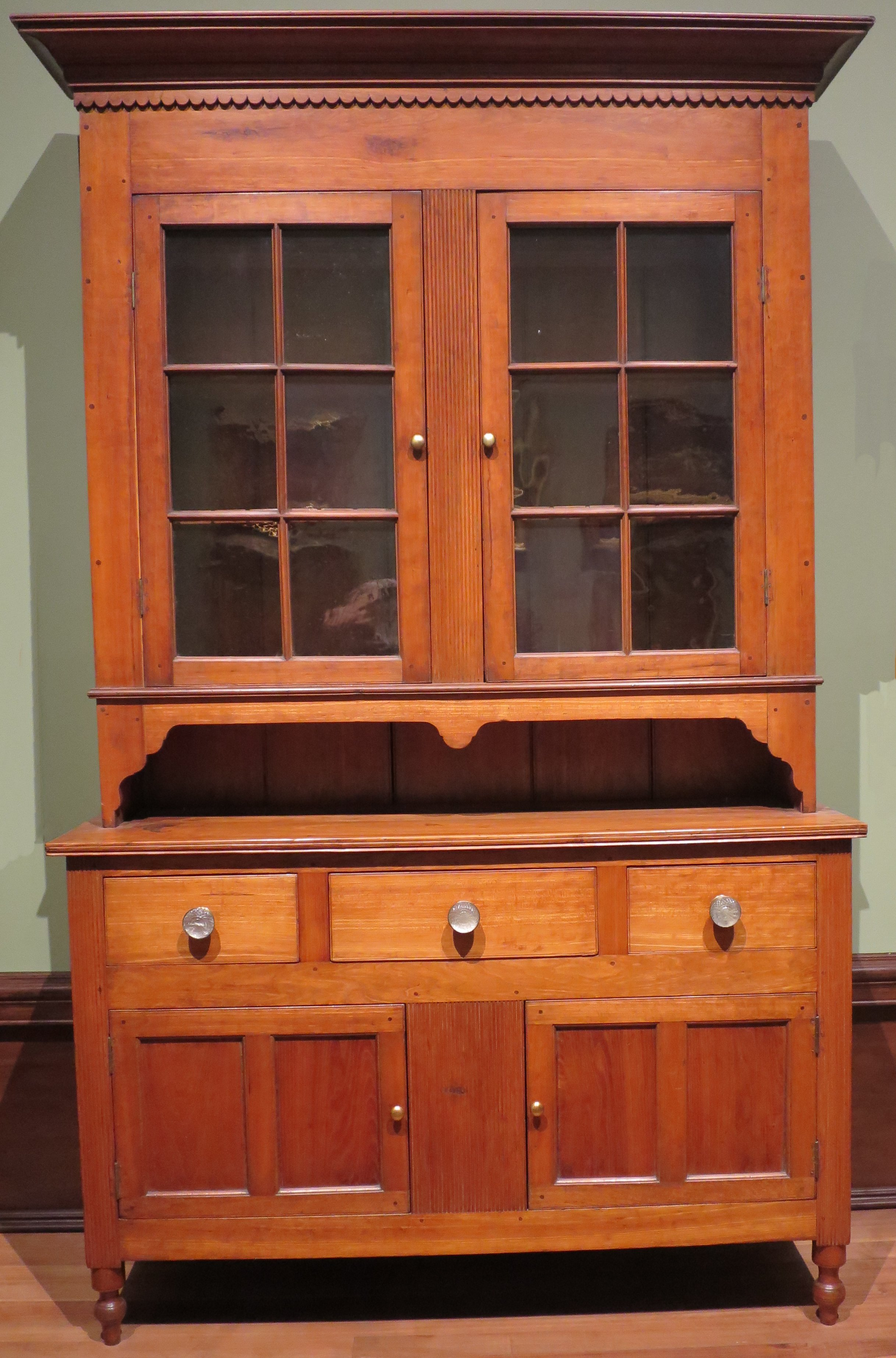 American wall cupboard, c. 1820, cherry, Dayton Art Institute